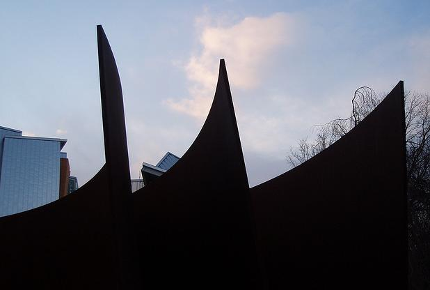 A view of Richard Serra's "The Hedgehog and the Fox" at Princeton University, with the roof of the Lewis Science Library beyond